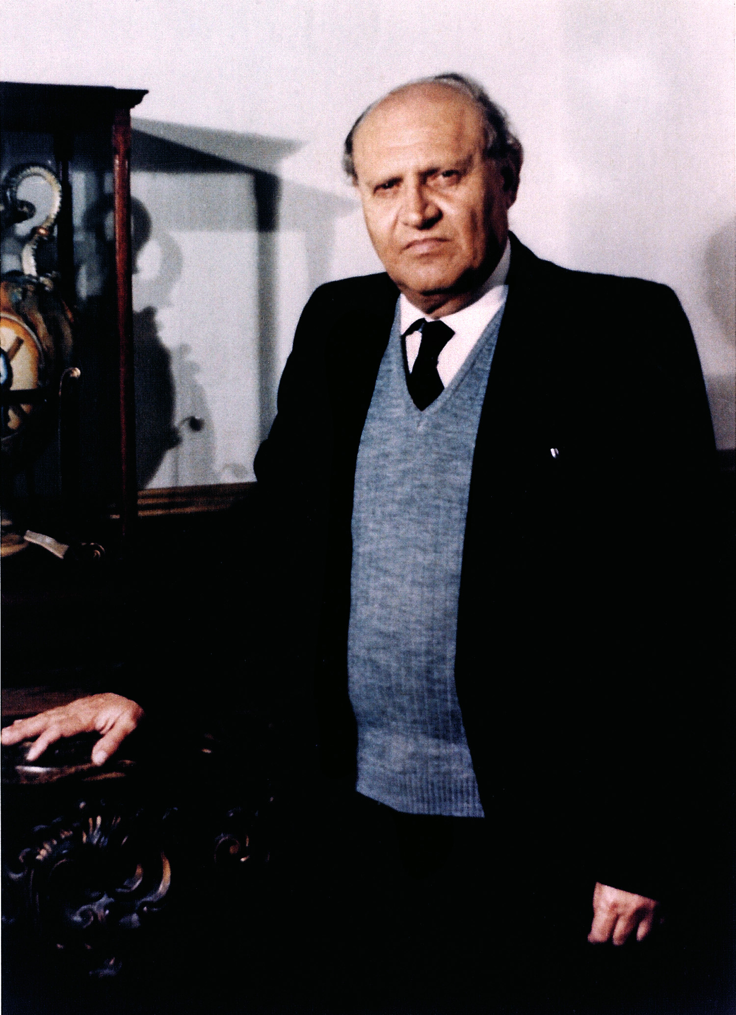 Portrait of Paul Xuereb provided by the government of Malta.